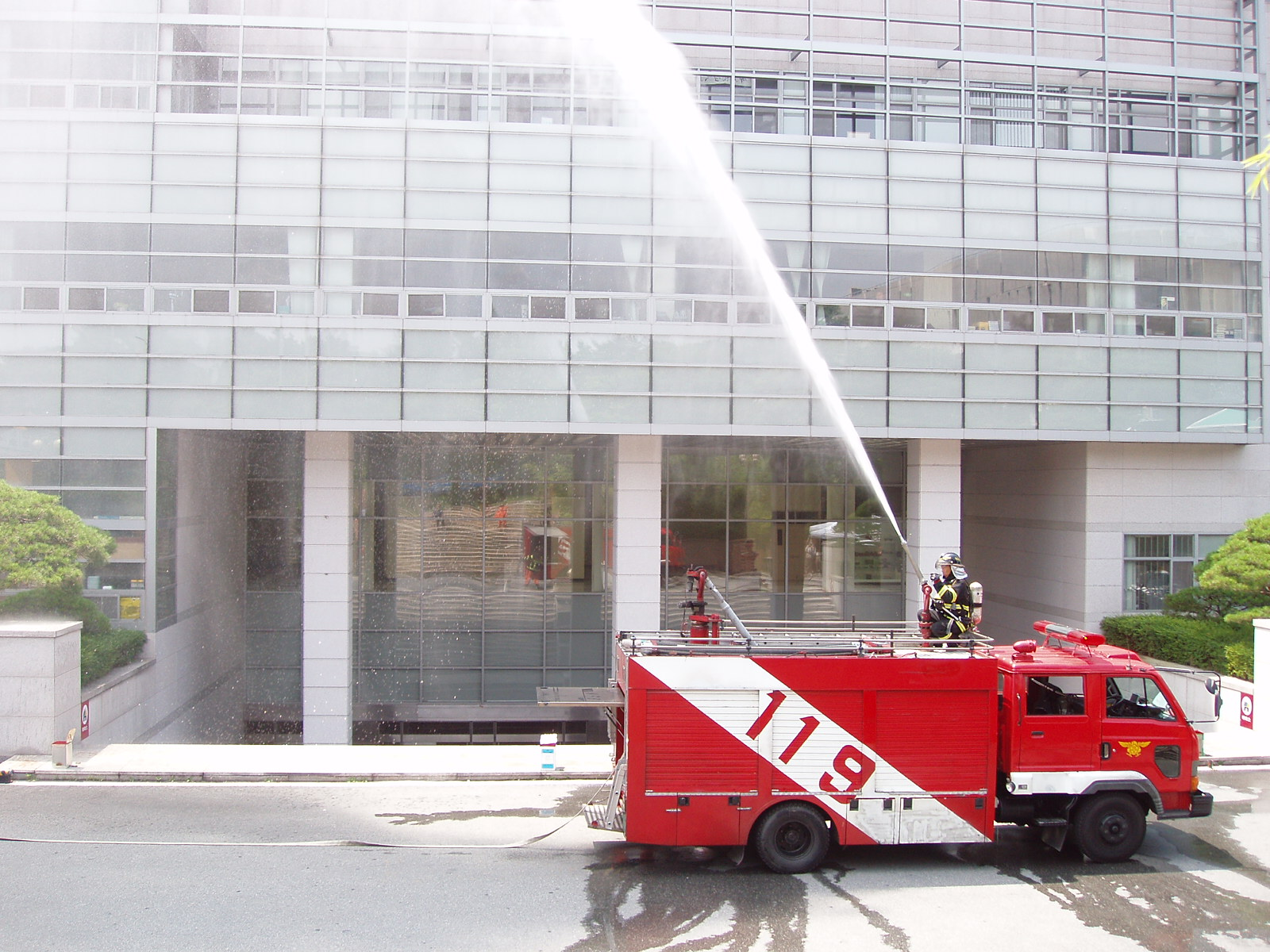 Firefighters perform fire drill/training on public building. Pictured at Pai Chai University, Daejeon, South Korea.